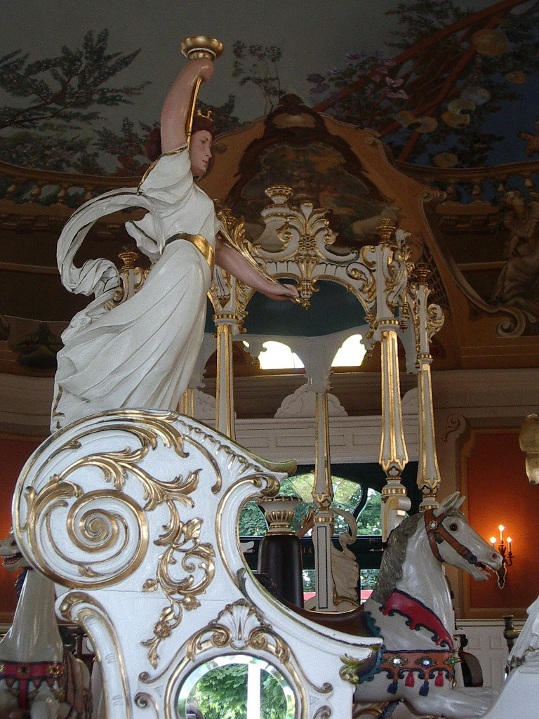 Carousel at Vidám park, Budapest